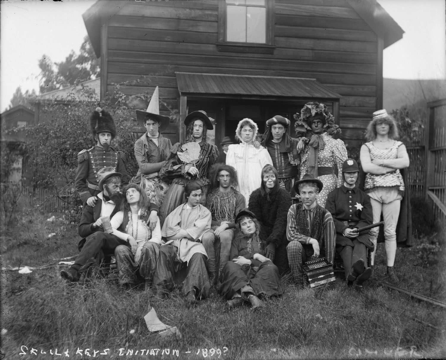 Title: "Skull & Keys initiation, 1899?" University of California at Berkeley. [negative] Identifier: BANC PIC 1960.010 ser. 1 :0193--NEG (4x5) Format: 1 negative : glass ; 4 x 5 in.